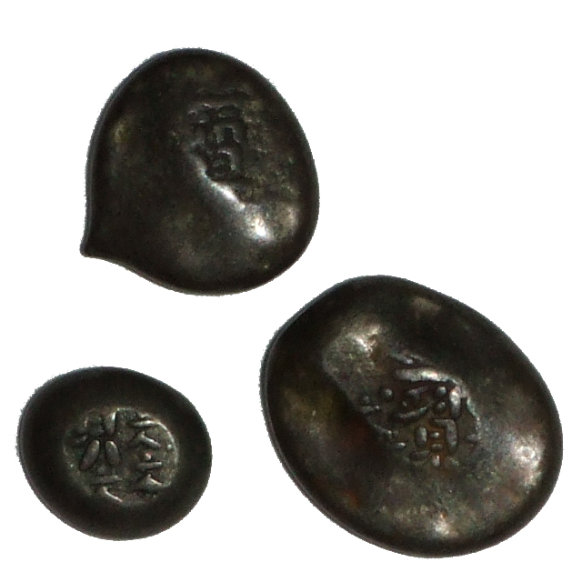 Bunzi-mameitagin(silver beans)